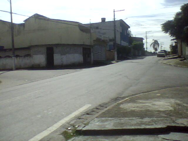 Street in Cidade Kemel, in Poá, Brazil.